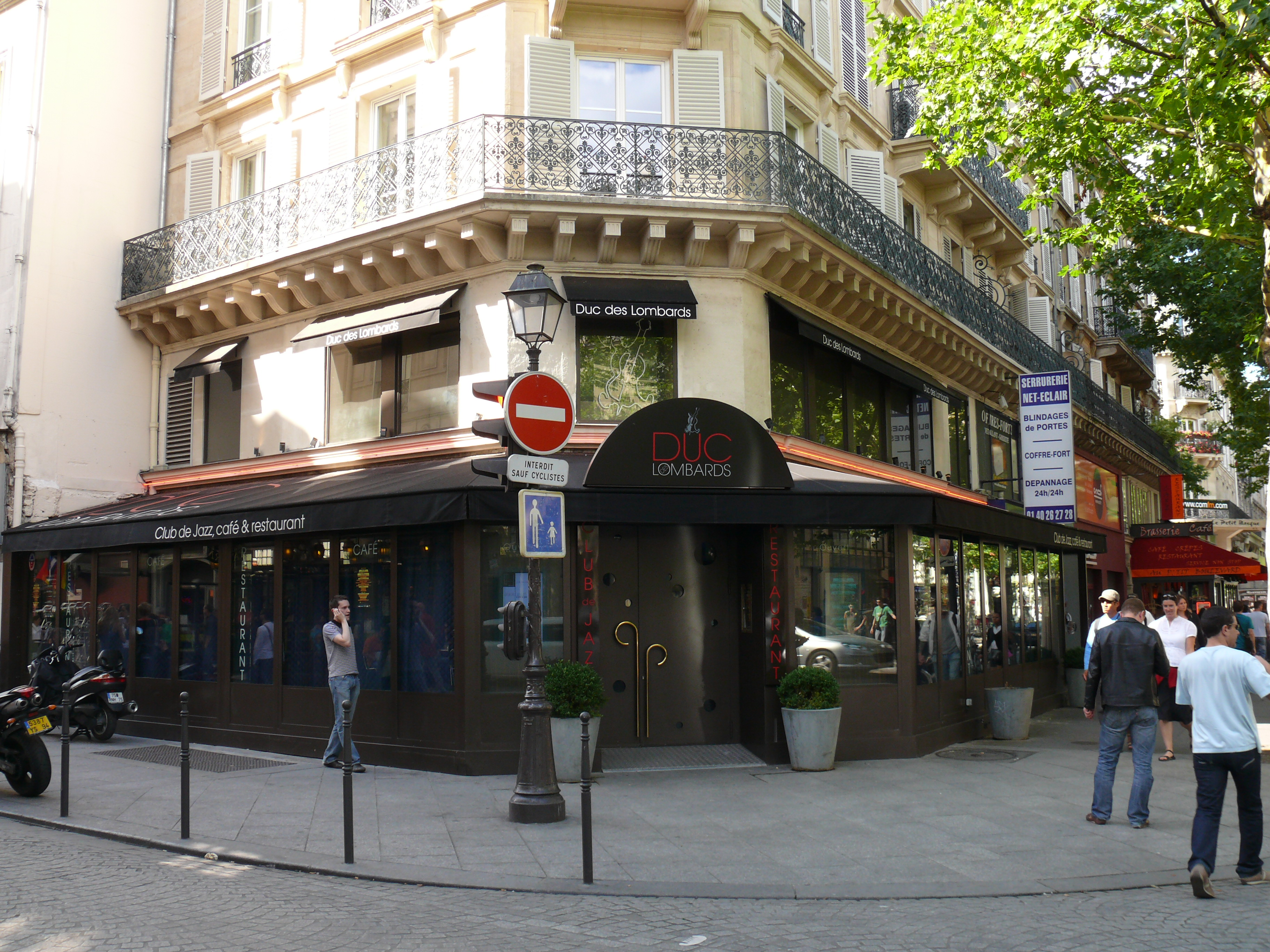 Jazz-club le Duc des Lombards, street rue des Lombards in Paris.